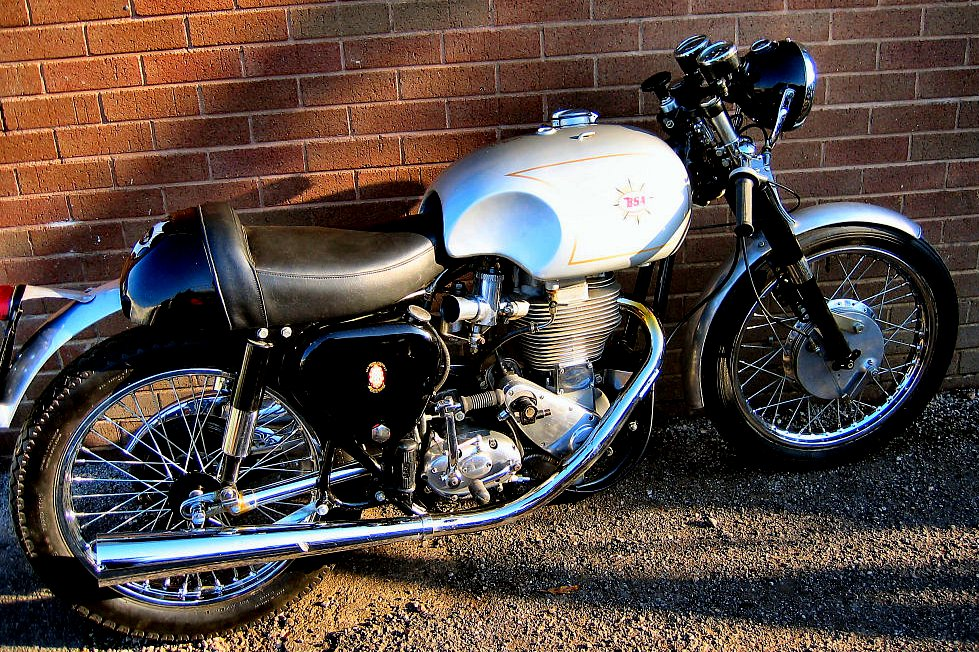 One of the ultimate cafe racers of their day. The BSA Gold Star 500 cc single. The BSA Gold Star, (1938–1963), is a 350 cc and 500 cc 4-stroke production motorcycle that gained its reputation for being one of the fastest machines of the 1950s. These motorcycles were popular for their high performance. Besides being hand built, with many optional performance modifications available, they came from the factory with documented dynamometer test results, allowing the new owner to see the horsepower produced. 1956 DBD34 The most prized model was the 500 cc DBD34 introduced in 1956, with clip-on handlebars, finned alloy engine, polished tank, 36 mm bell-mouth Amal carburettor and swept-back exhaust. The DBD34 had a 110 mph (177 km/h) top speed. The Gold Star dominated the Isle of Man Clubmans TT that year. Later models had a very high first Gear, enabling 60 mph (97 km/h) plus before changing up to second. Production ended in 1963.[5]